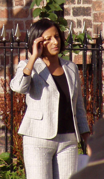 Ranvir Singh, presenter of North West Tonight on the BBC outside the house of Michael Shields